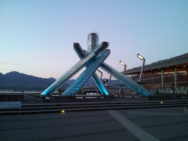 Olympic Cauldron, Vancouver, BC (2013)